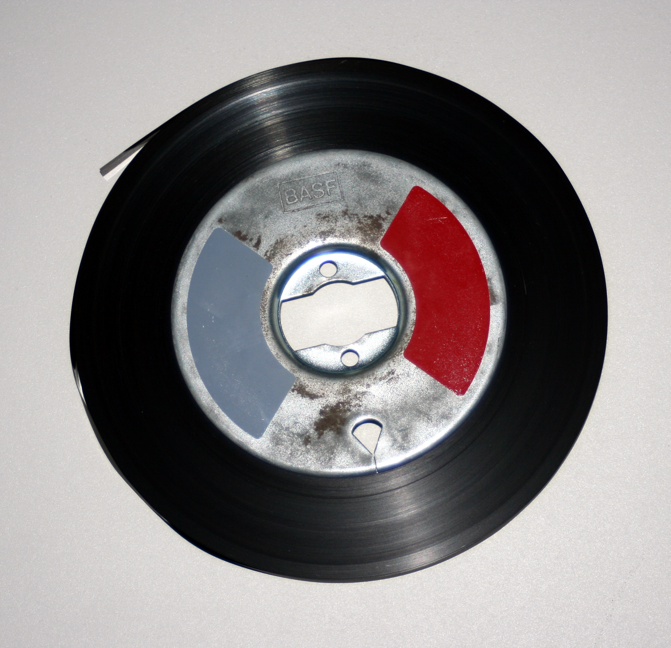 Open Real 1/4 Inch Audio Tape On an BASF (DIN) Hub